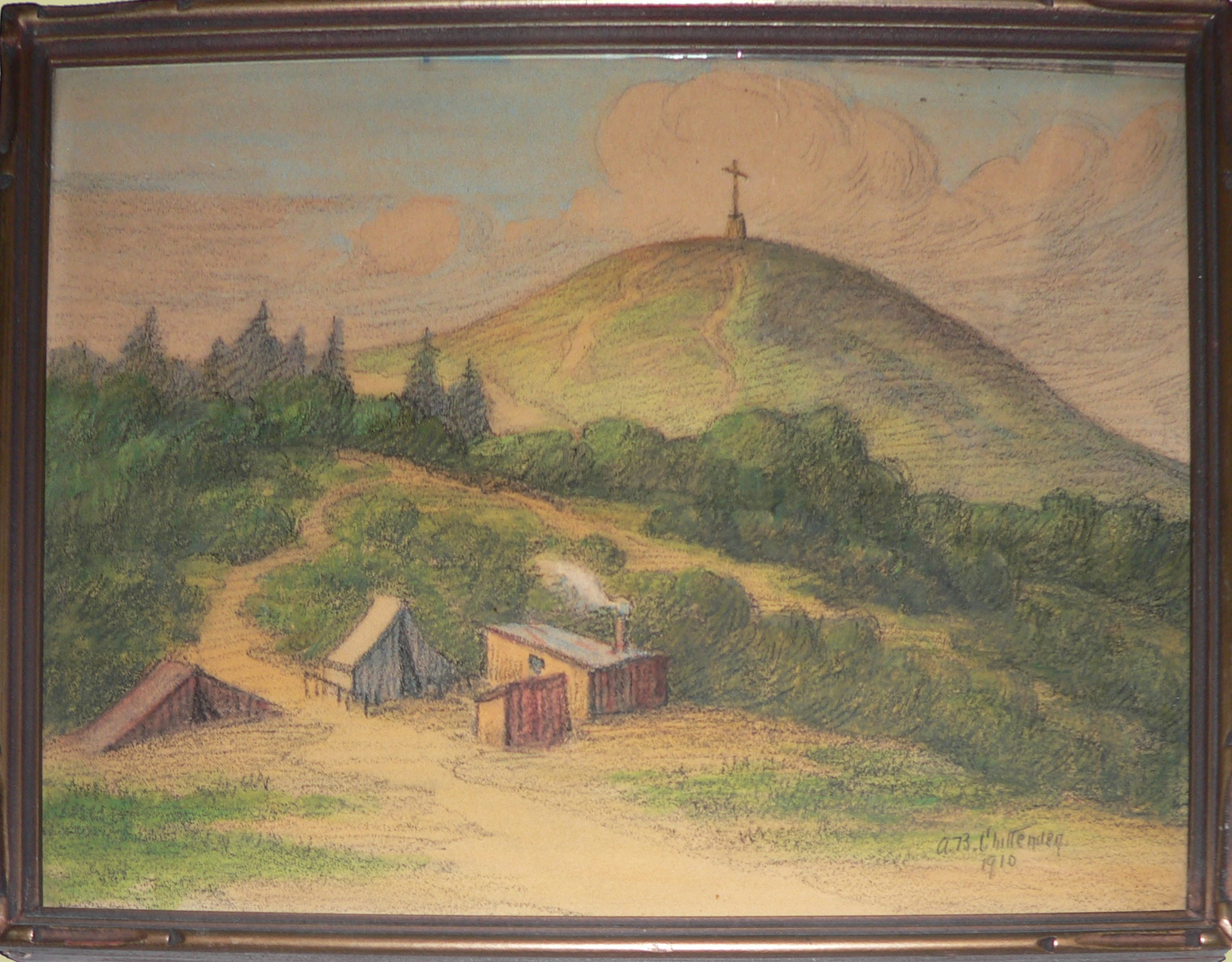 watercolor painting of Lone Mountain, california by alice brown chittenden, 1910 (dated on painting). shacks or tents in foreground are from the san francisco earthquake of 1906.